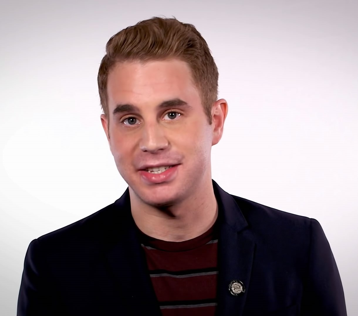 Ben Platt, American theater actor, the 71st Tony Award winner on #TheatreInspires at The Tony Awards YouTube channel.